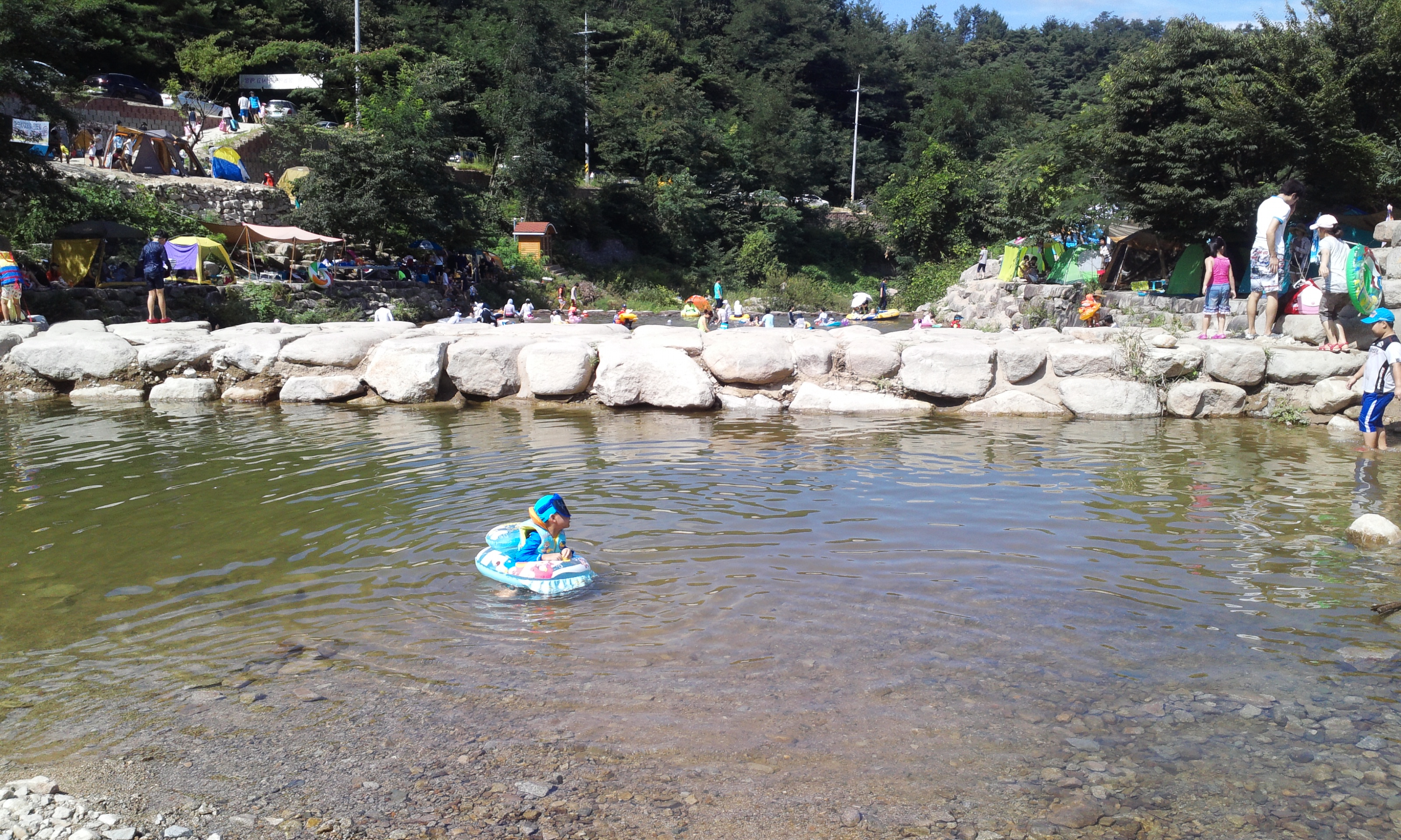 This picture was taken in Dongsan Valley in Mt. Palgong, Gunwi on August 15th, 2013.